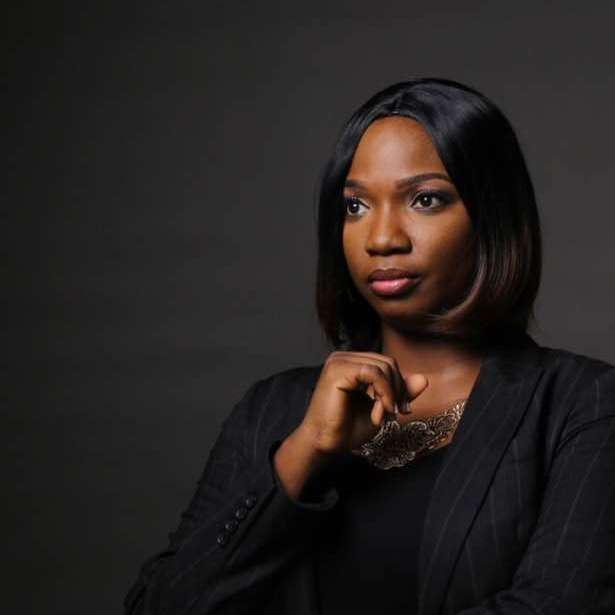 Profile Photo